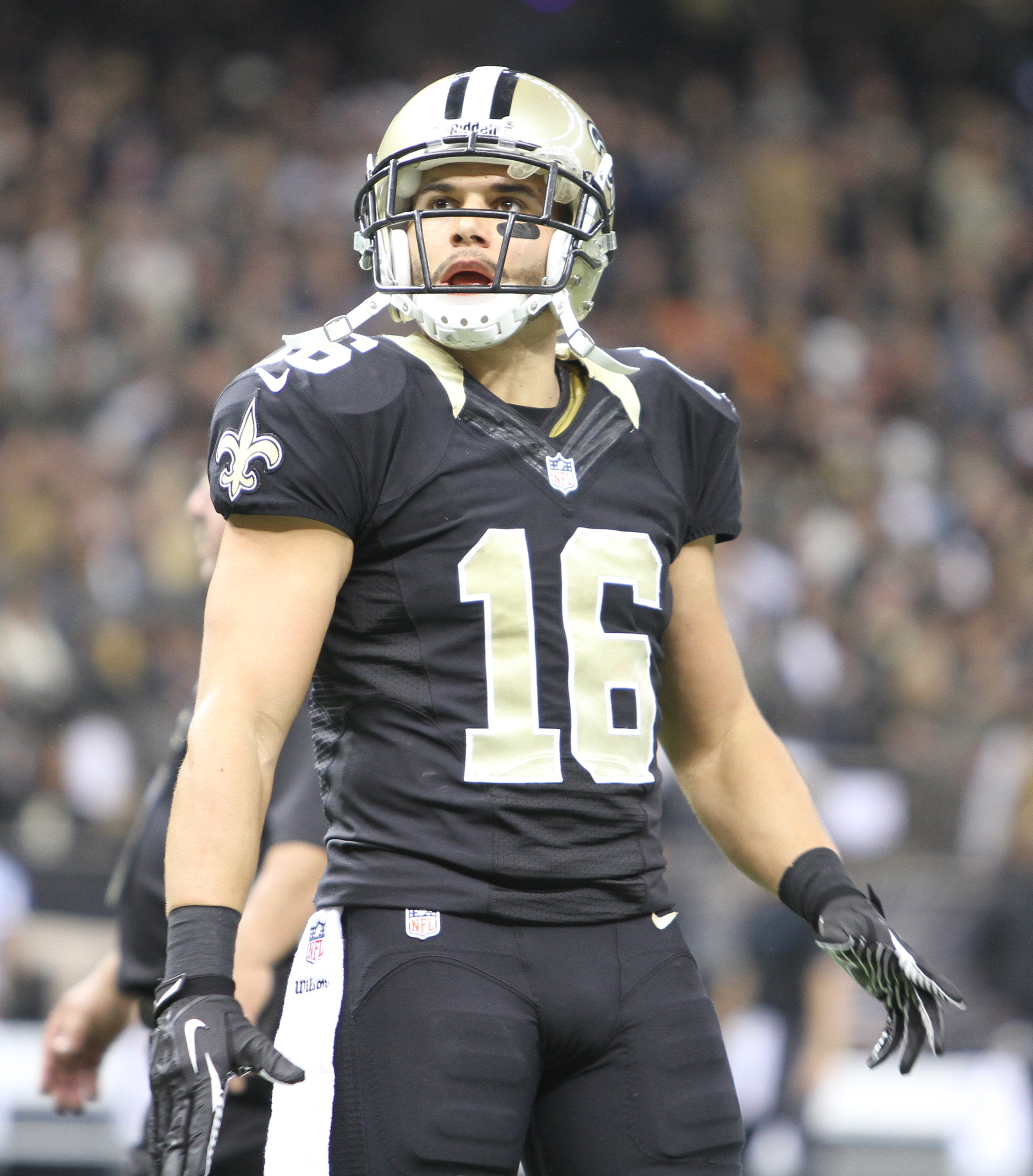 New Orleans Saints wide receiver, Lance Moore, in a game against the Carolina Panthers at the Mercedes Benz Superdome on December 8, 2013.